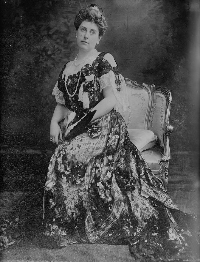 Mrs. W. W. Sherman circa 1914 Bain News Service,, publisher. Mrs. W.W. Sherman [between ca. 1910 and ca. 1915] 1 negative : glass ; 5 x 7 in. or smaller. Notes: Title from unverified data provided by the Bain News Service on the negatives or caption cards. Forms part of: George Grantham Bain Collection (Library of Congress). Format: Glass negatives. Repository: Library of Congress, Prints and Photographs Division, Washington, D.C. 20540 USA, General information about the Bain Collection is available at Persistent URL: Call Number: LC-B2- 3045-2